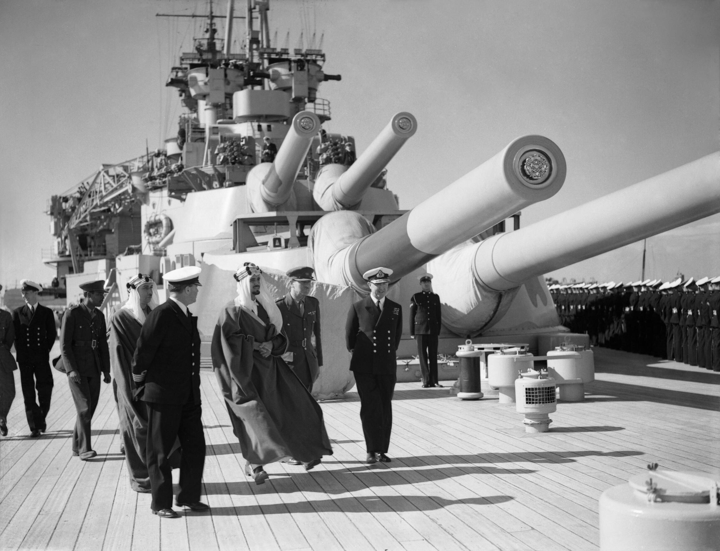 The Royal Navy during the Second World War The Emir Mansur, son of King Ibn Saud of Saudi Arabia, with Admiral Sir Andrew Cunningham, Commander in Chief Mediterranean Fleet, and Captain Barry, Captain of HMS QUEEN ELIZABETH, on the quarterdeck of the flagship HMS QUEEN ELIZABETH during the Emir's visit to the fleet at Alexandria. Two of the battleship's twin 15 inch gun turrets and its super structure can be seen in the background. Note the crew lined up for inspection round the edge of the deck.